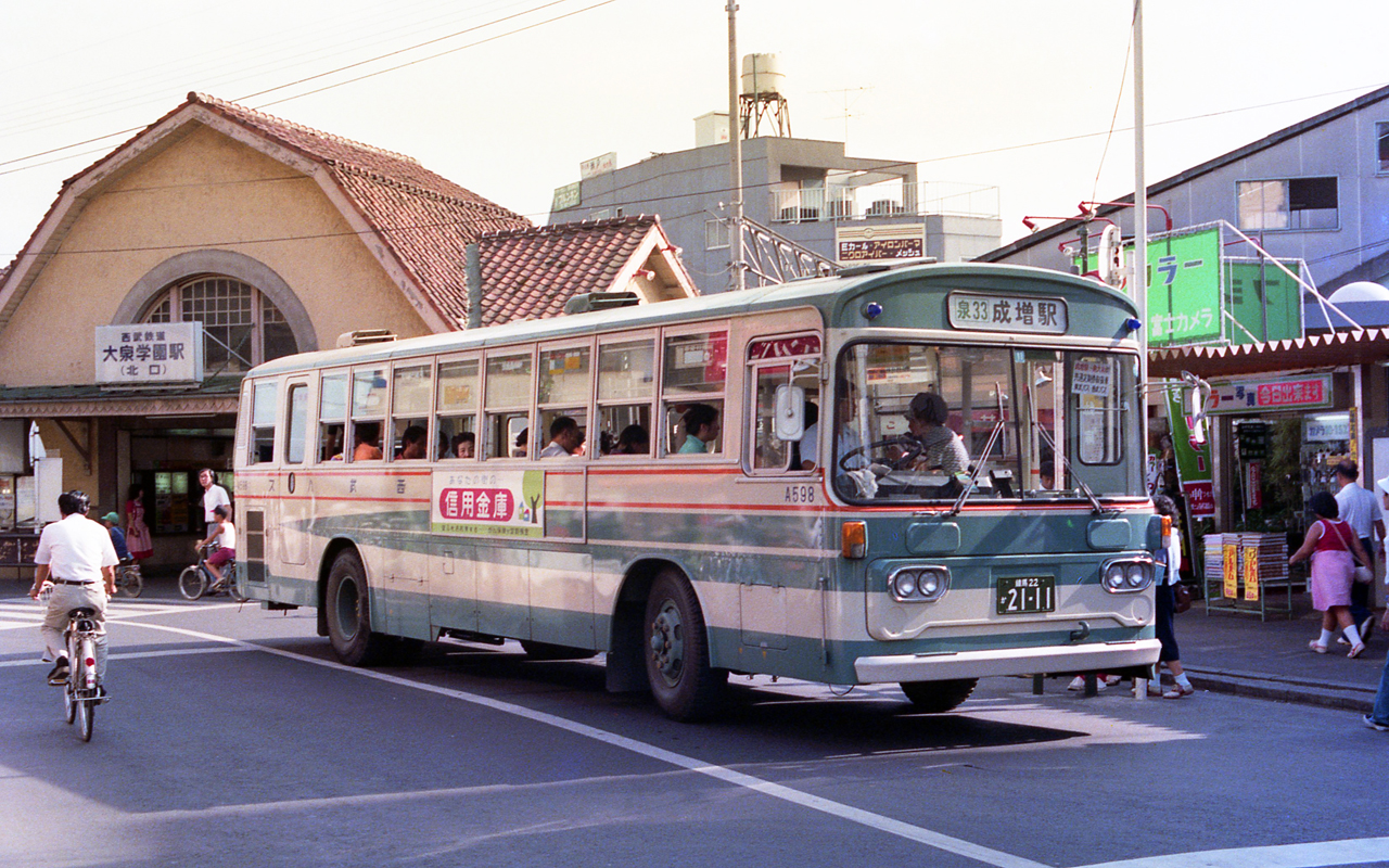 Oizumi Gakuen Station North Exit Station Building and Seibu Bus (September 1979)